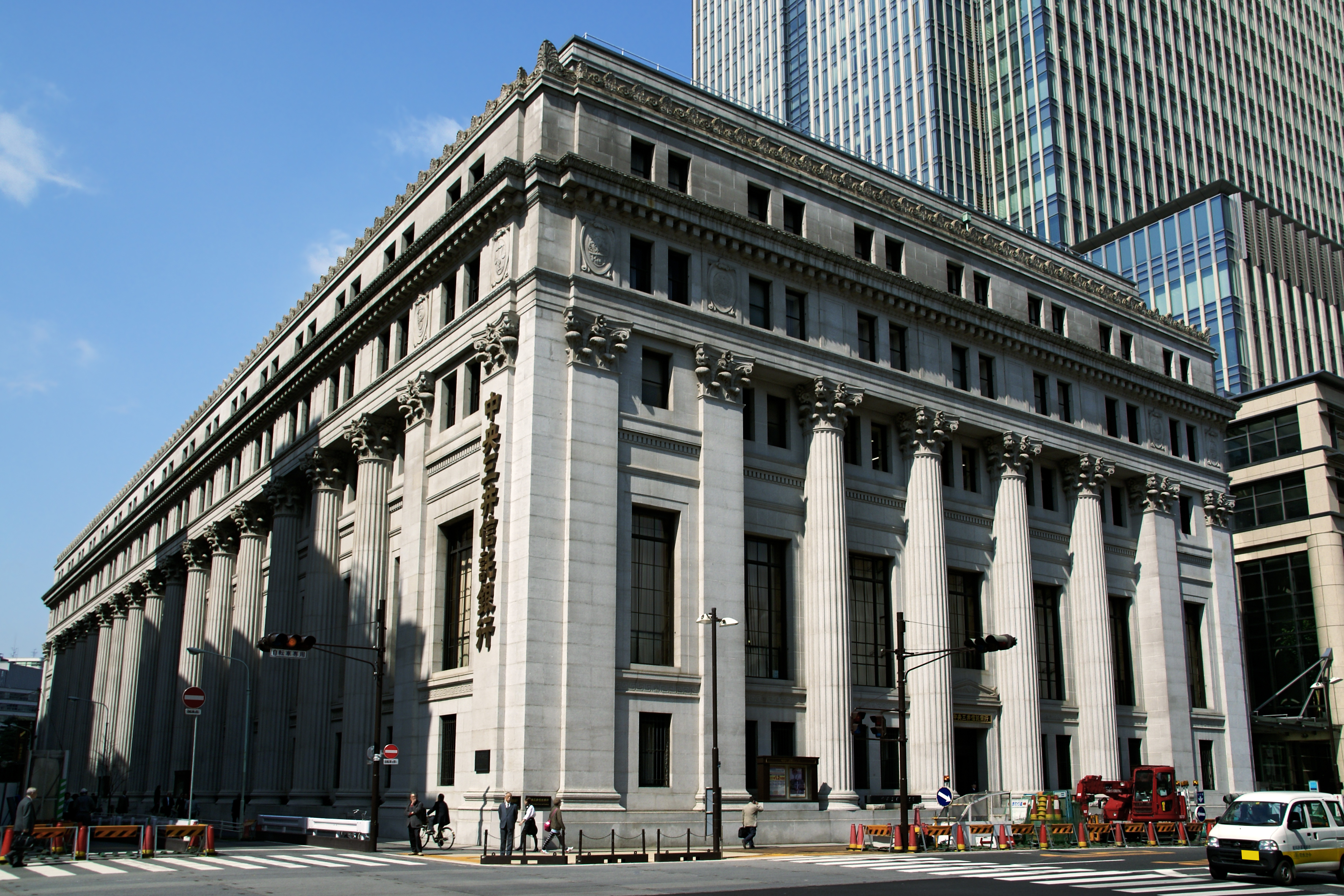 Mitsui Main Building in Chuo-ku, Tokyo, Japan